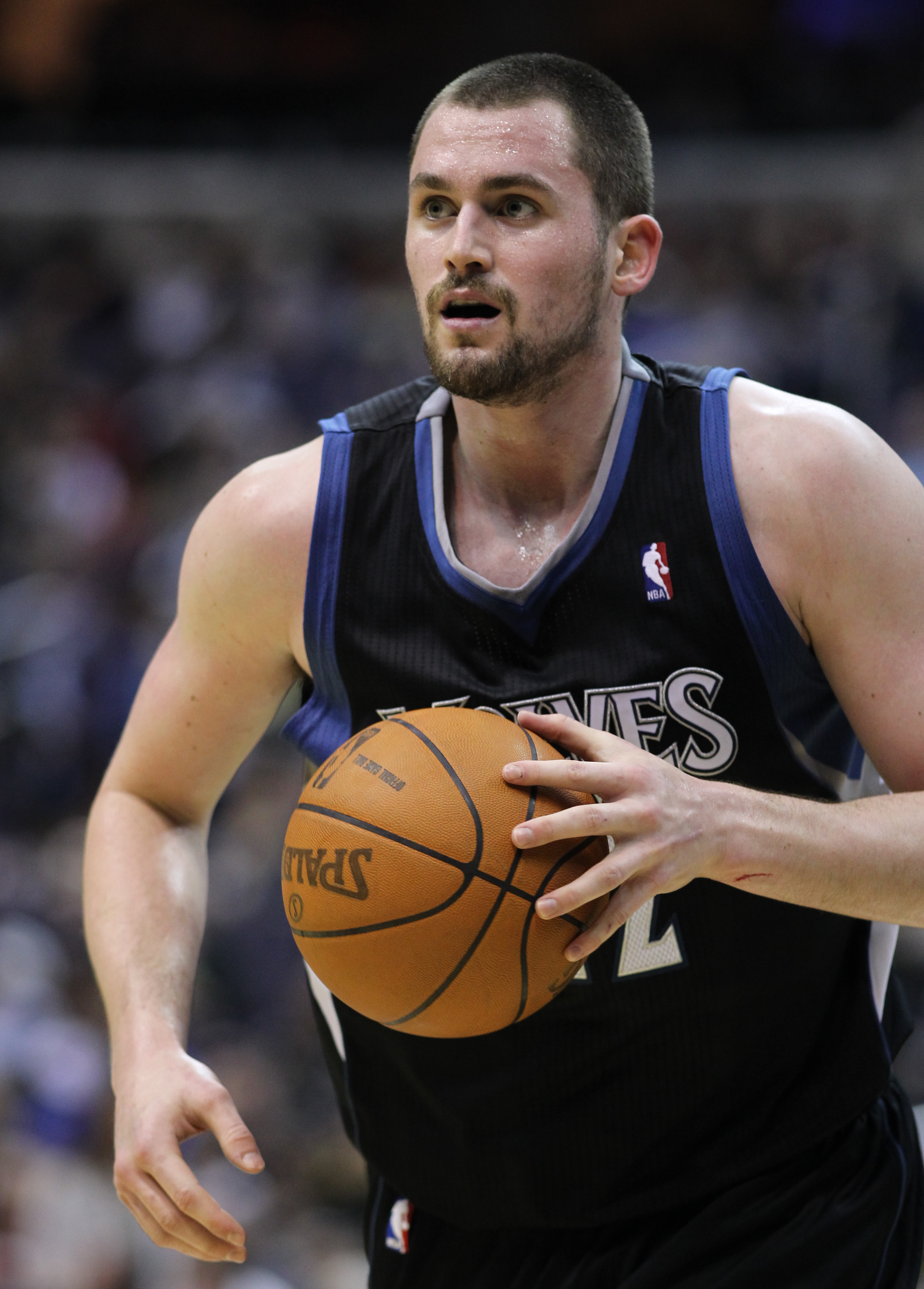 Wizards v/s Timberwolves 03/05/11